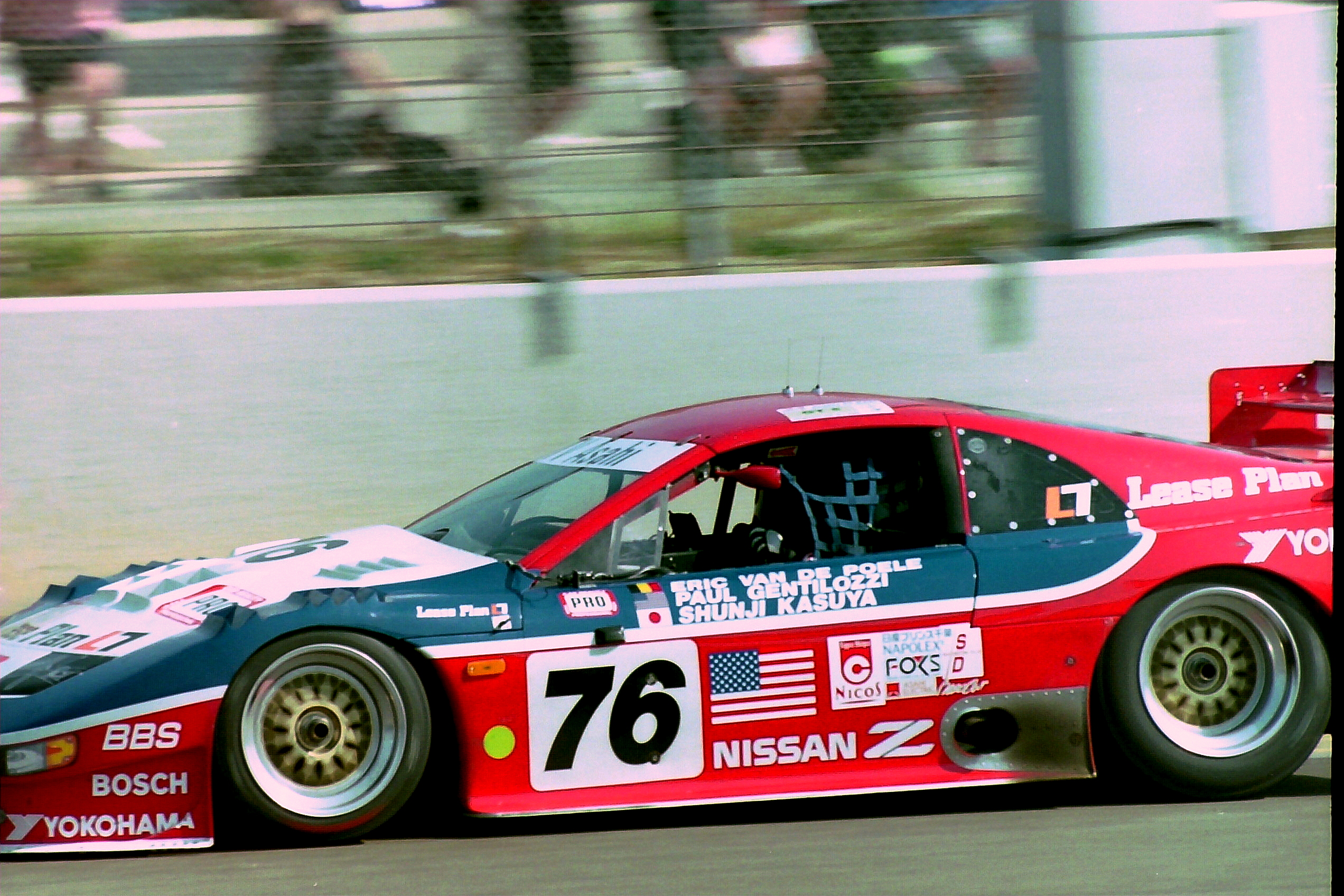 Nissan 300ZX Turbo - Eric van de Poele, Paul Gentilozzi & Syunji Kasuya at the 1994 Le Mans